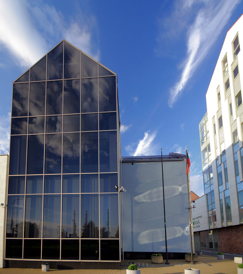 Archive of Klaipeda's District